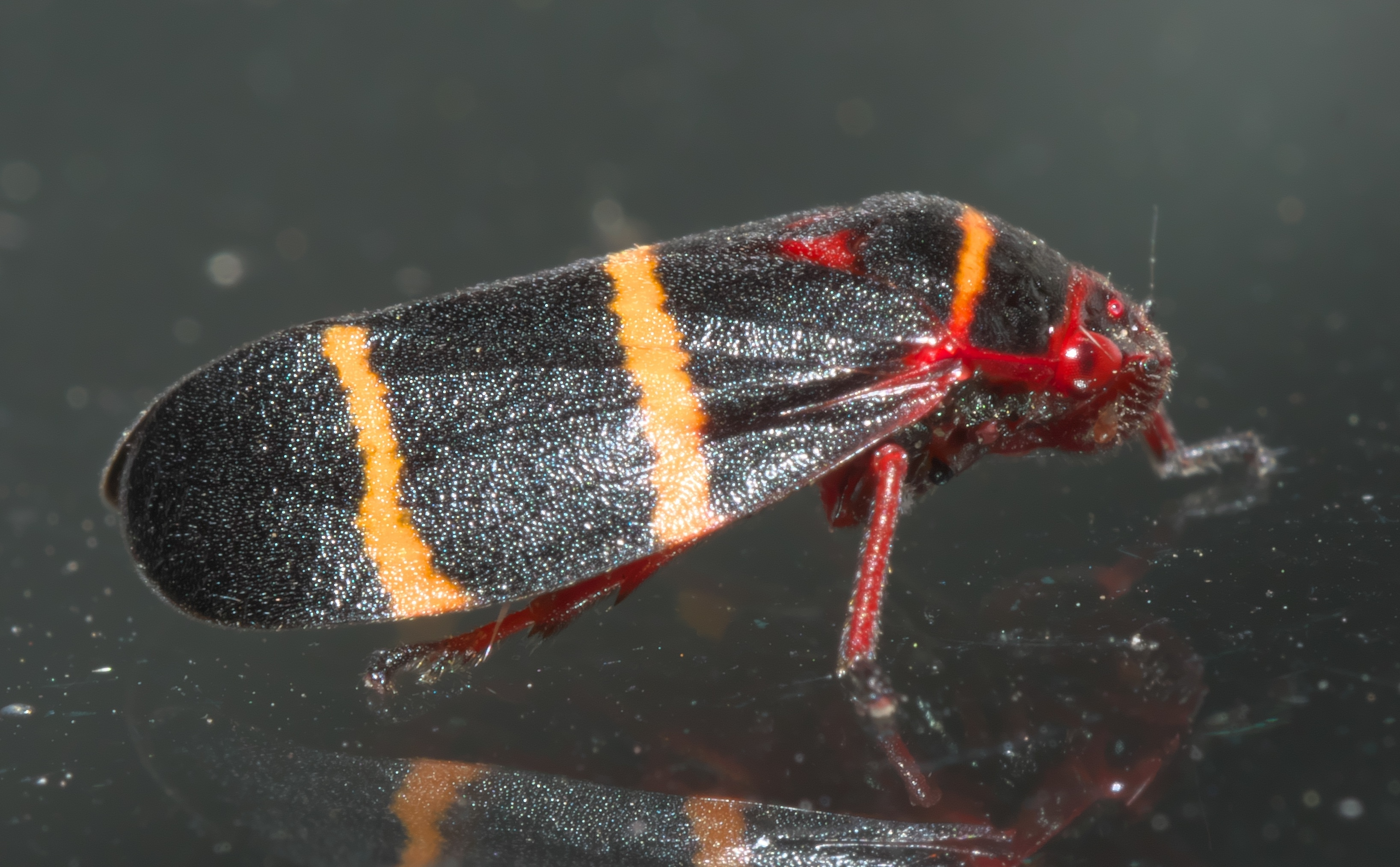 Prosapia bicincta, Two-lined Spittlebug, Size: 9 mm, ID Confidence: 92